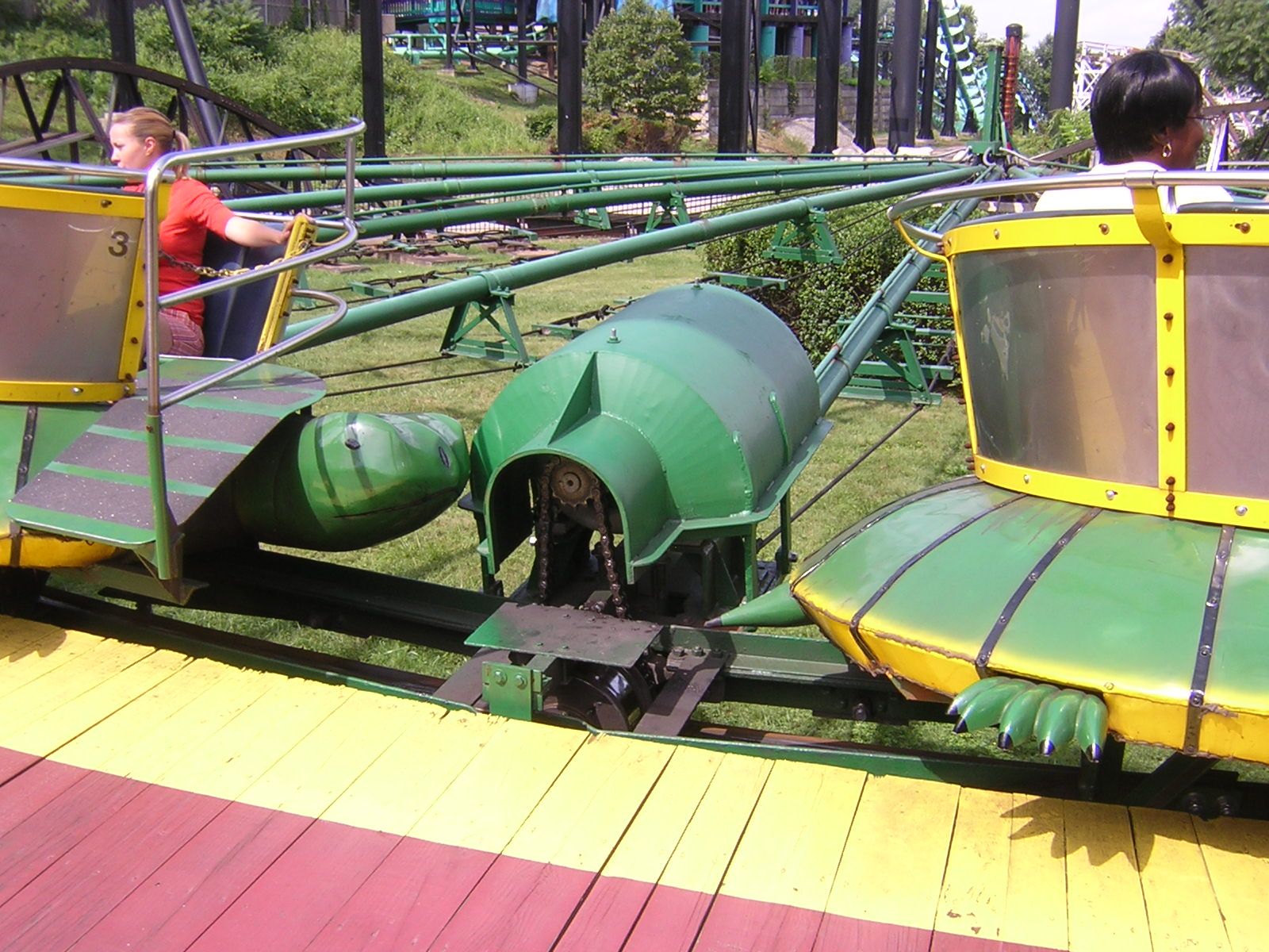 A scene from Kennywood, an amusement park located in West Mifflin, Pennsylvania on the Monongahela River. This is a view of the historic Turtle ride. This Tumble Bug ride dates to 1926. This view shows the drive arrangement and the car theming.